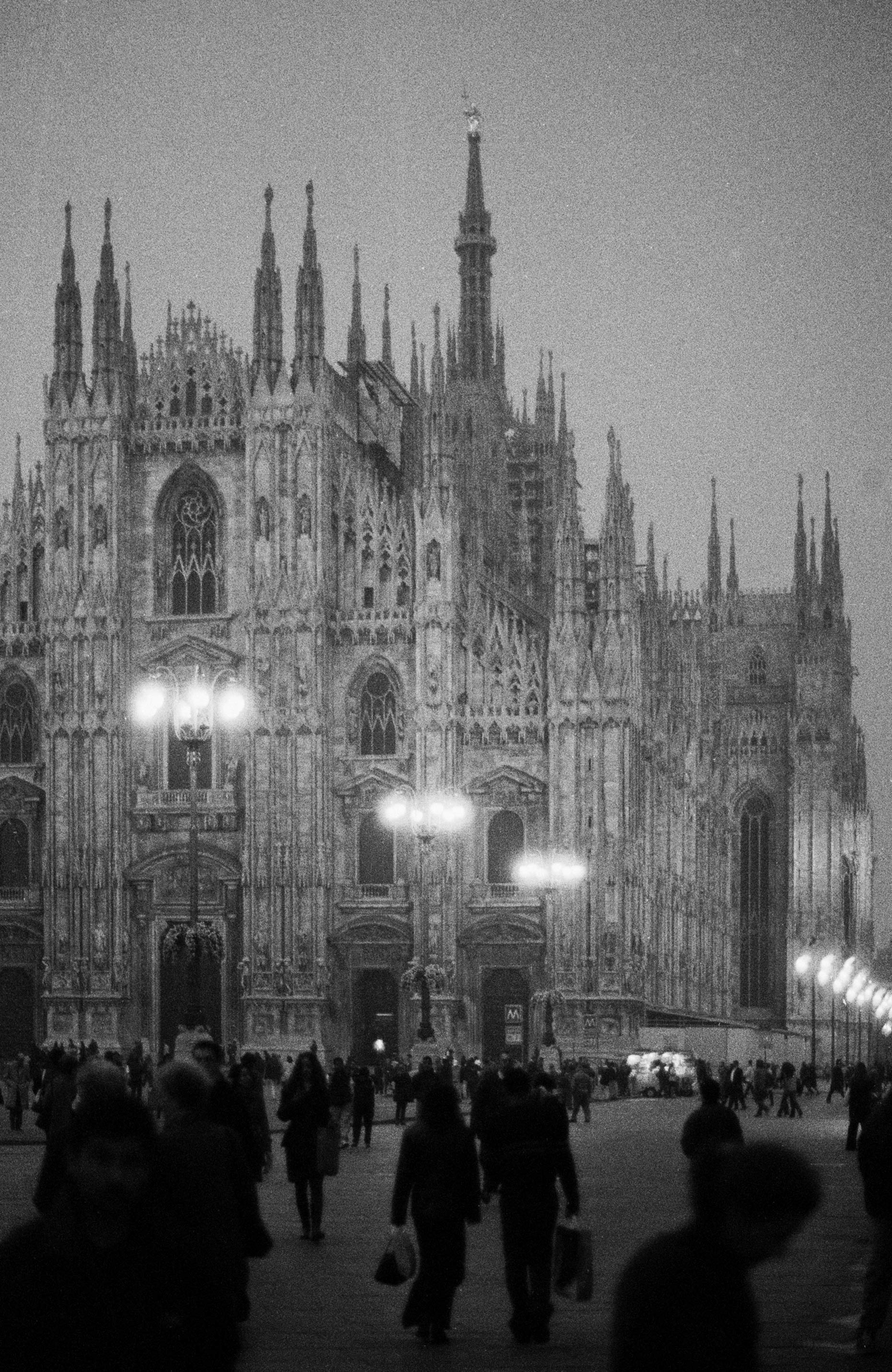 A view at dusk of the facade (and part of the south side) of the cathedral of Milan, Italy. (OM-4/HP5.)